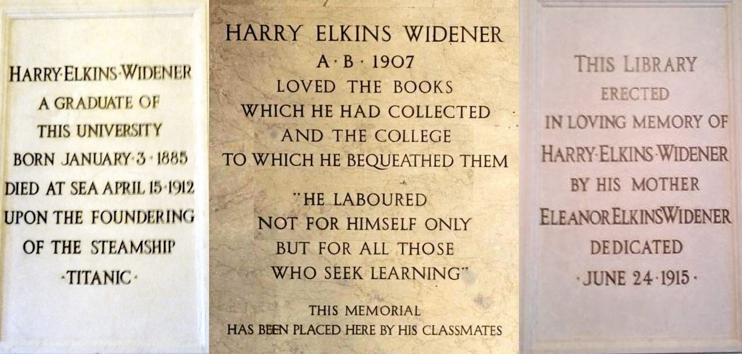 Tablets (two -- left and right -- in vestibule, one -- center -- in in main entry hall), Harry Elkins Widener Memorial Library, Harvard University, cropped and juxtaposed